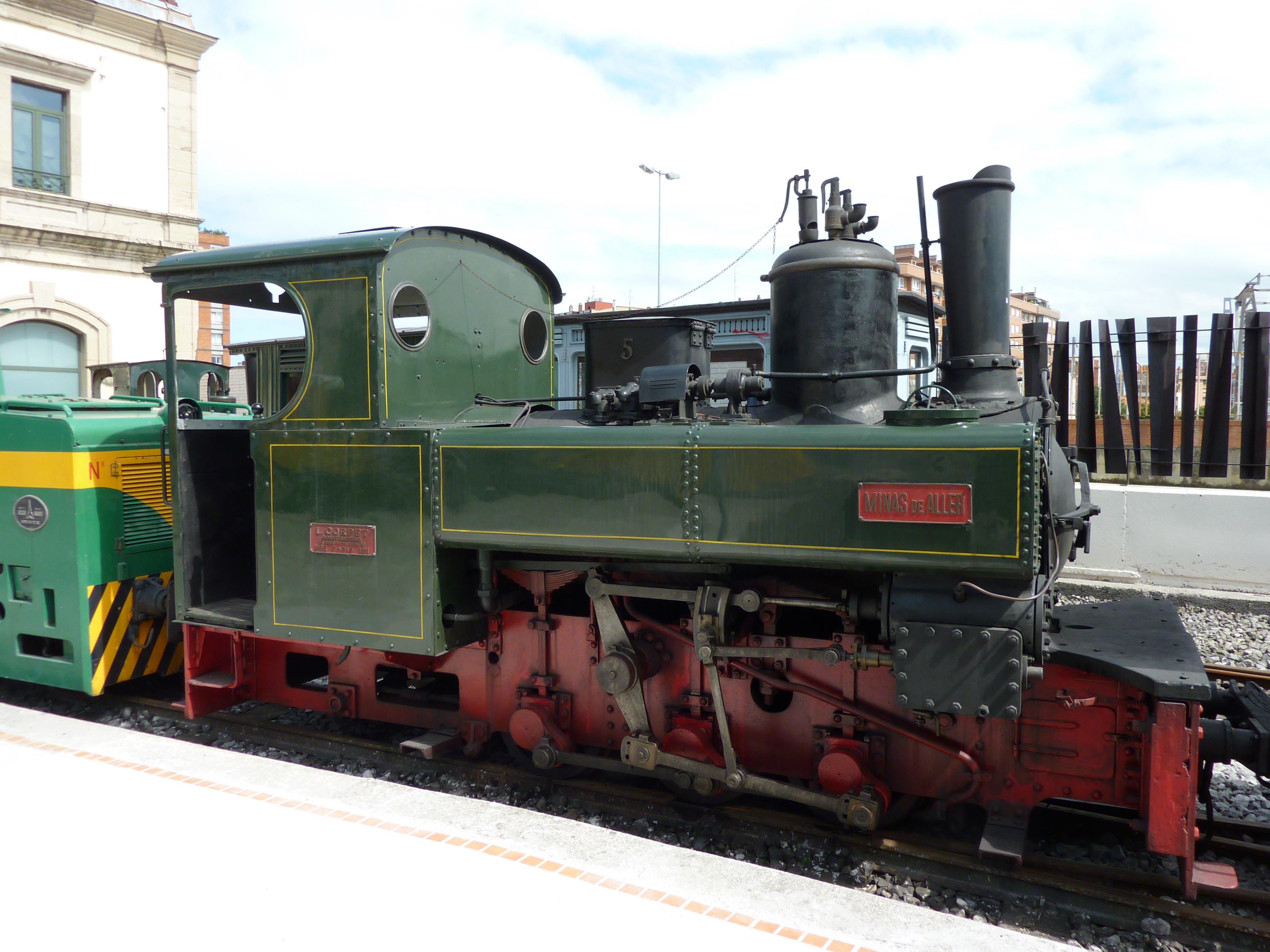 Steam locomotive "Minas de Aller", in Asturian Railway Museum, Gijón, Asturias, Spain